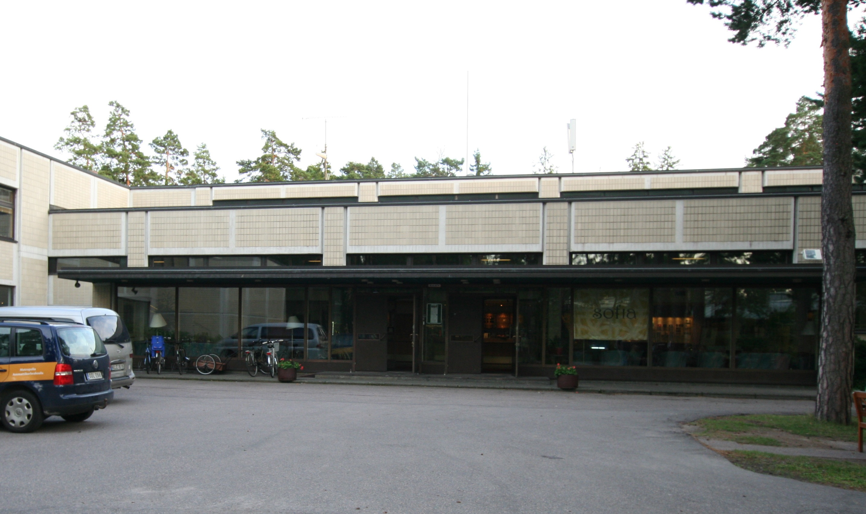 Entrance to culture centre Sofia